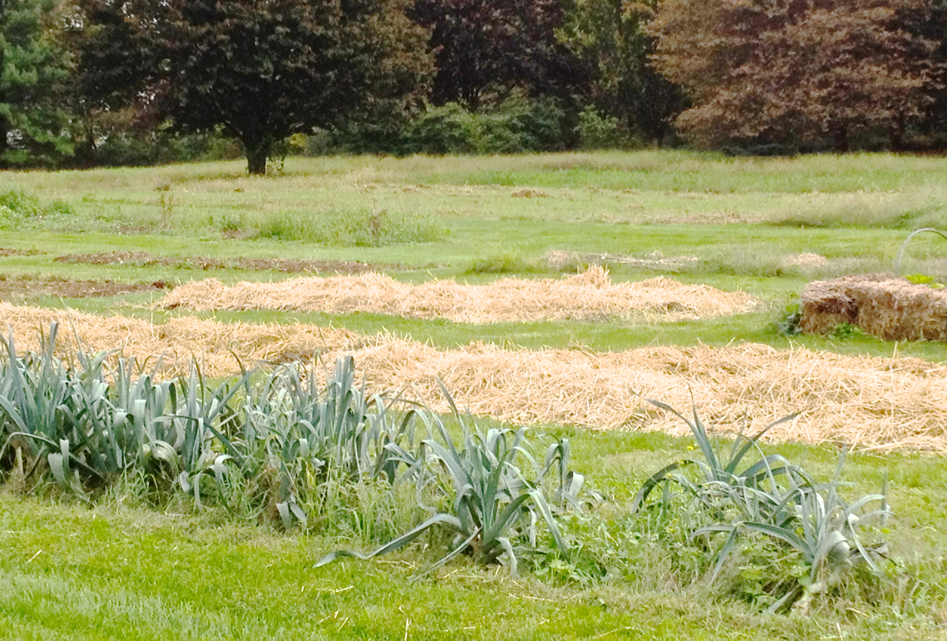 Rodale Organic Gardening Experimental Farm